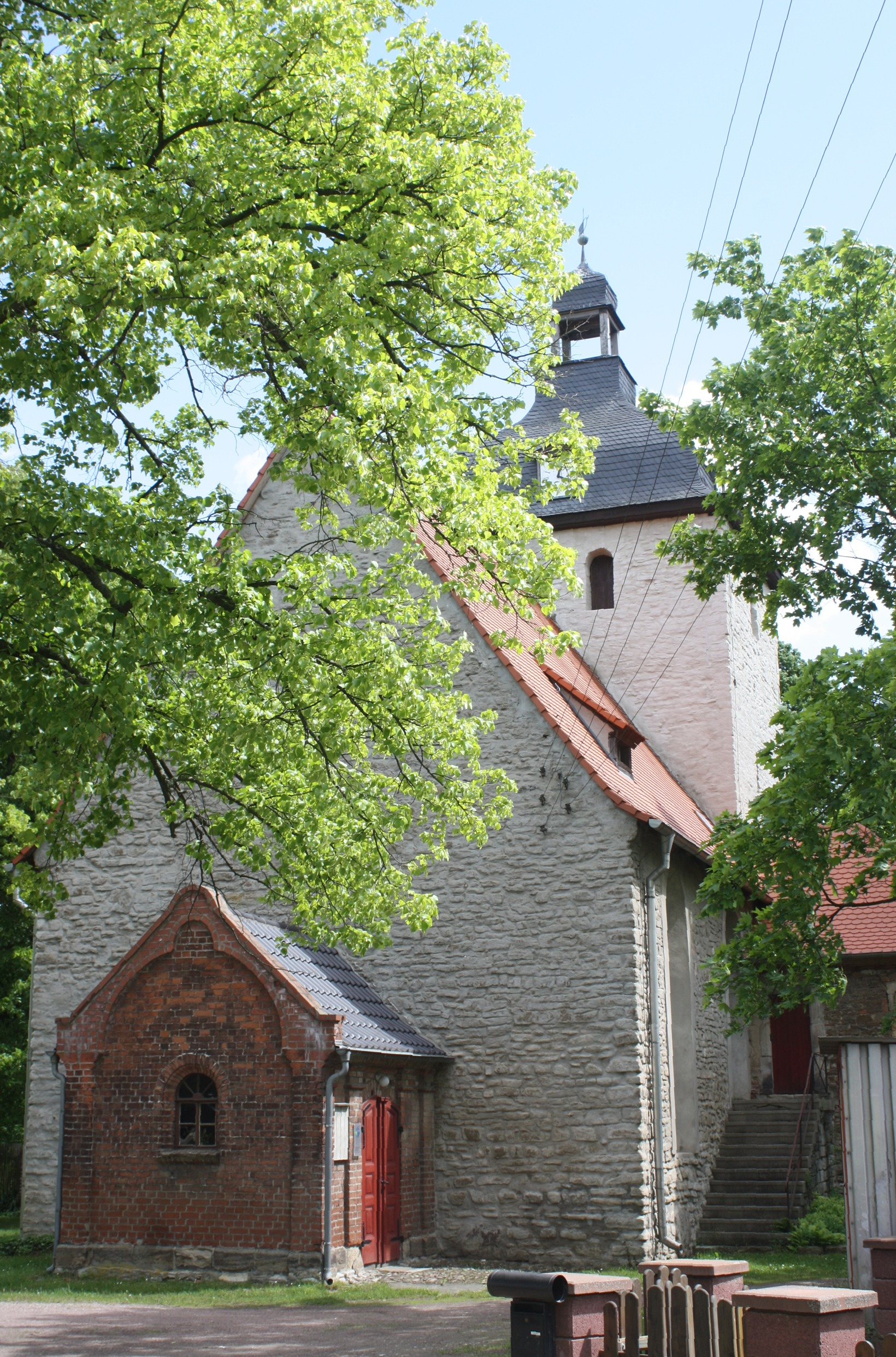 Tollwitz (Bad Dürrenberg), the village church